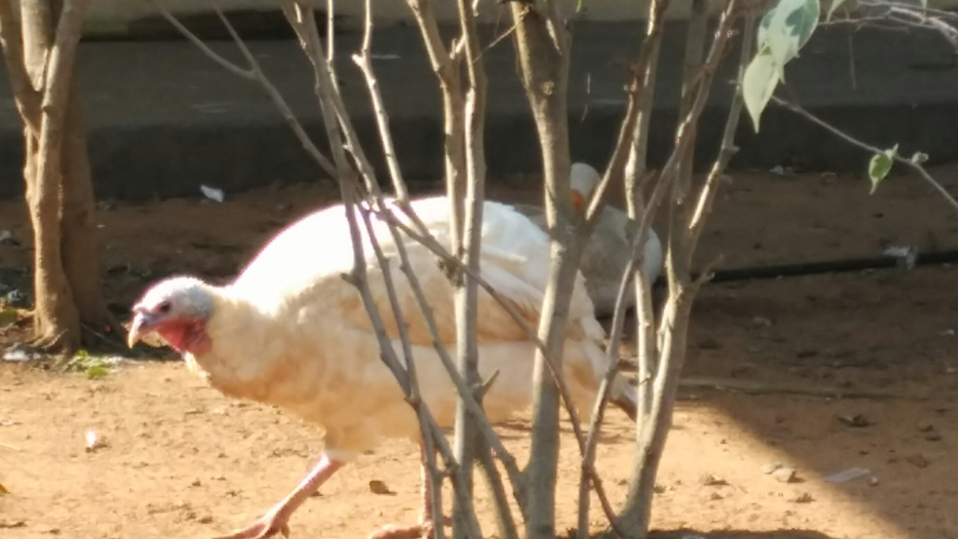 turkey bird in araku